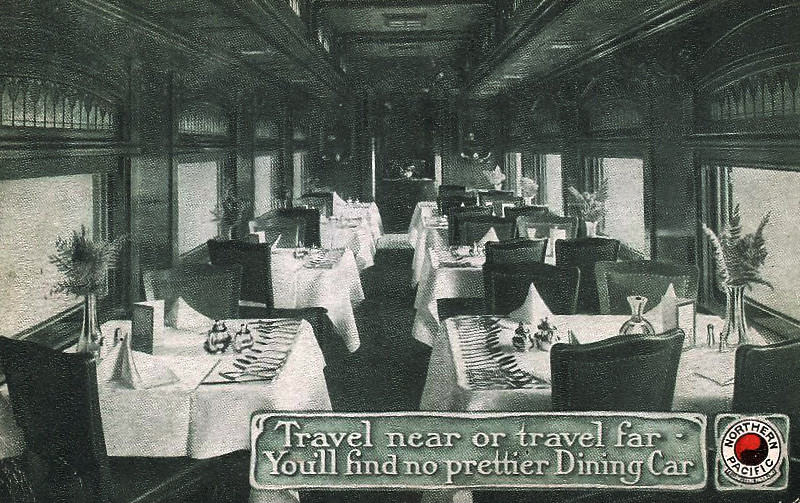 Postcard photo of the interior of a Northern Pacific dining car circa 1912.